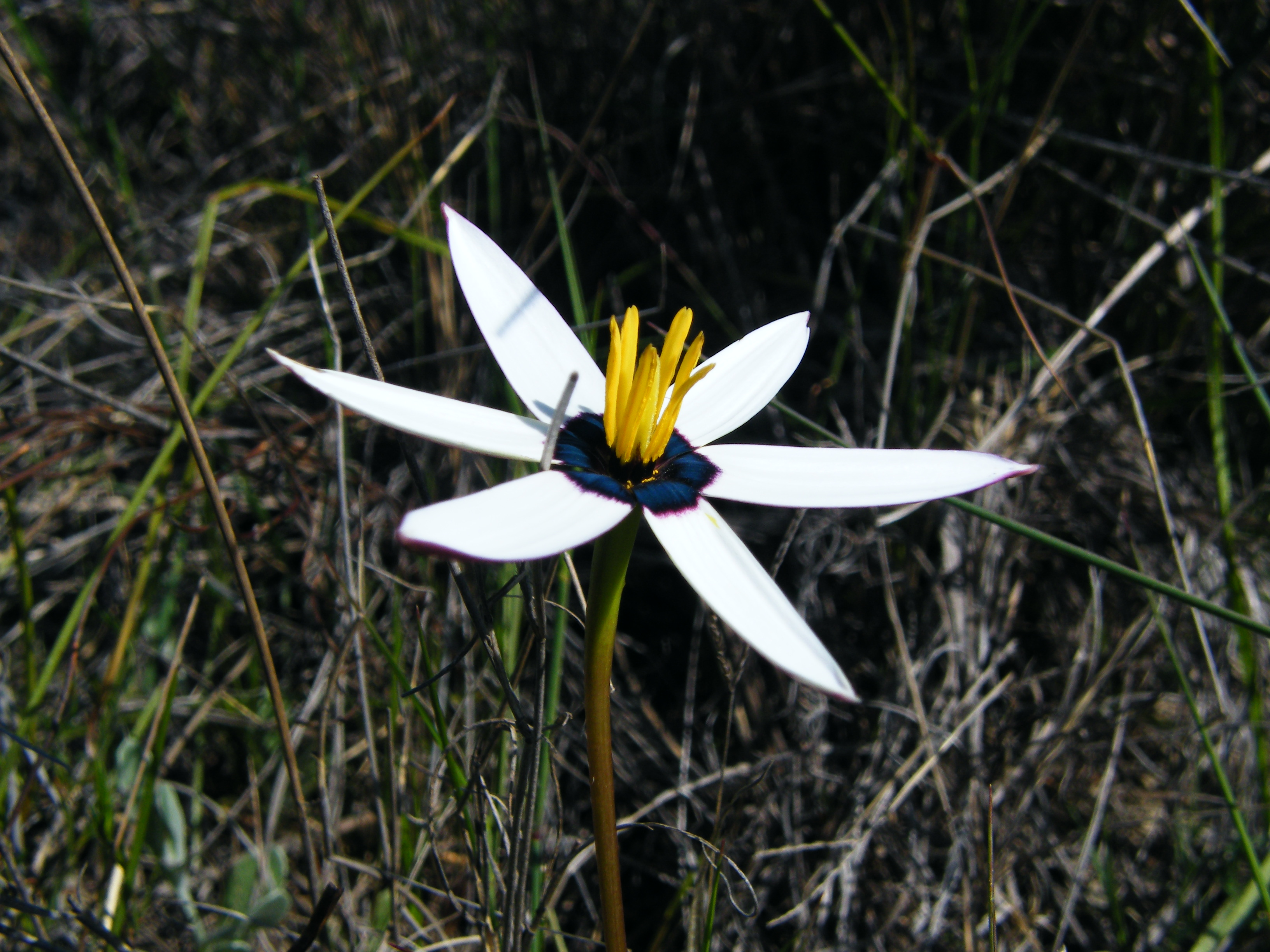 Star flower